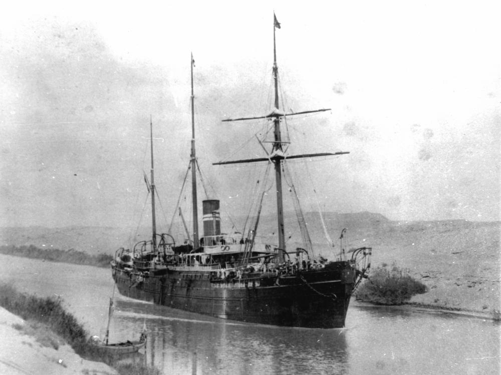 3,481 GRT steamship RMS Quetta in the Suez Canal. Built in 1881 for the British India SN Co. On 18 February, 1890 she left Brisbane bound for London. She was wrecked near Thursday Island in the Torres Strait on 28 February 1890. Of 291 people aboard, 133 were killed. (From description supplied with photograph.)